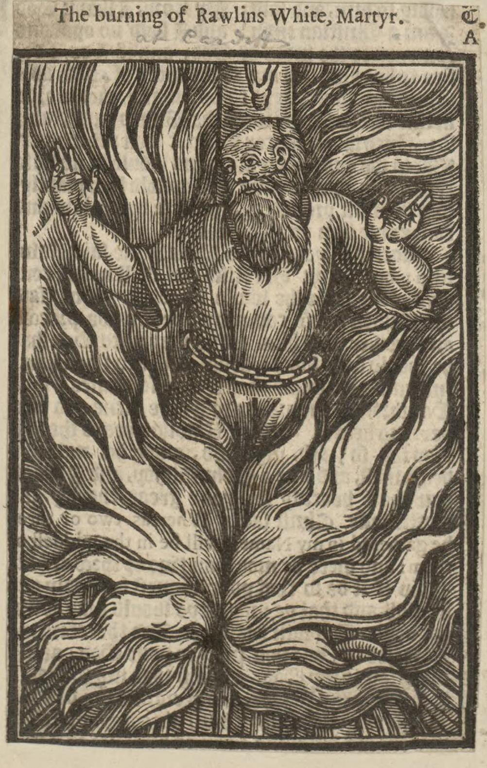 A portrait from the Welsh Portrait Collection at the National Library of Wales. Depicted person: Rawlins White – Welsh Protestant martyr